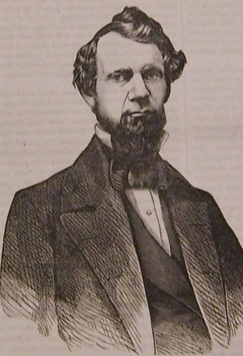 Chauncey Vibbard, Railroad executive and Congressman from New York